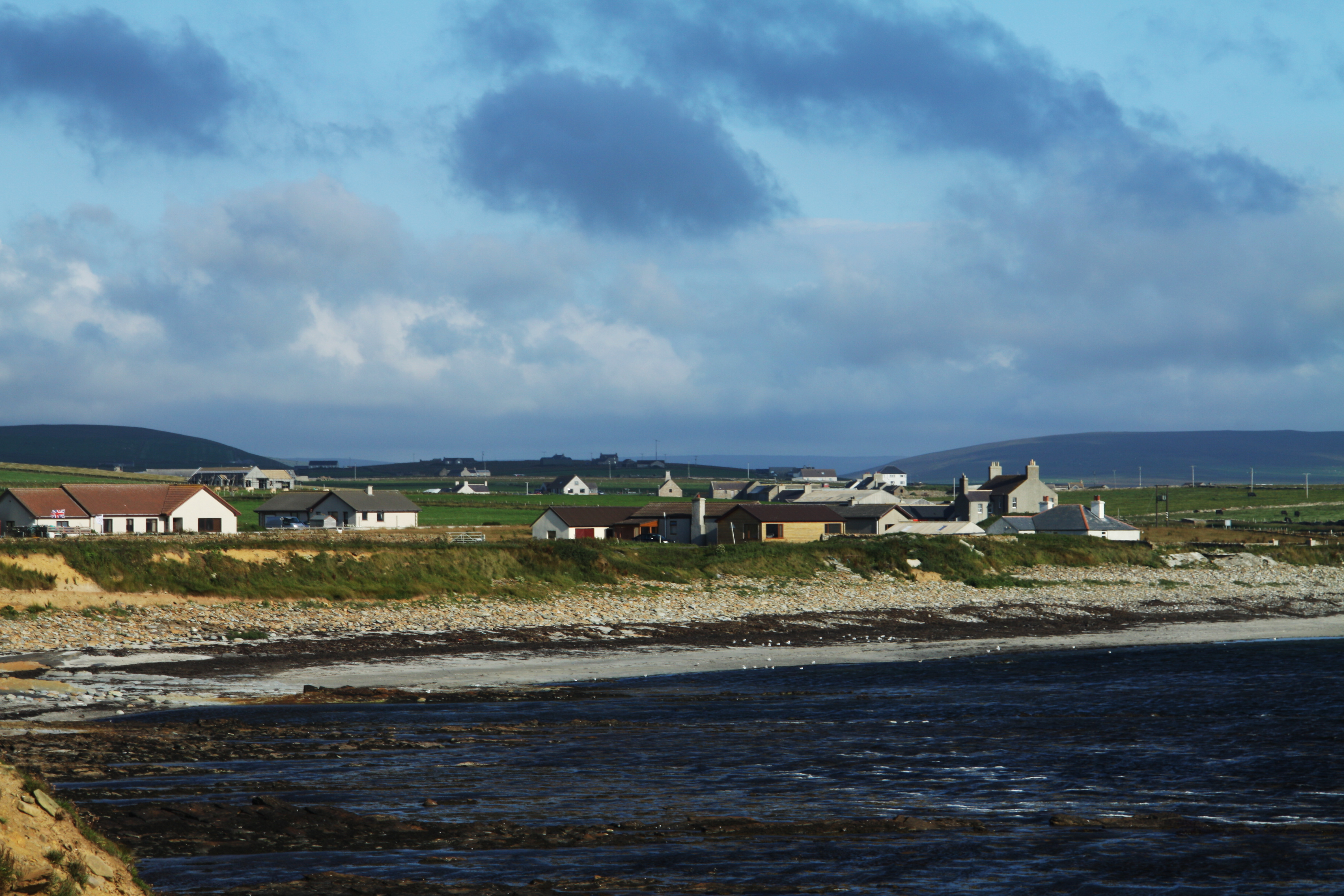 Birsay village, Orkney Island, Scotland